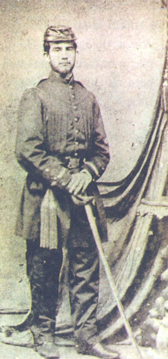 Lieutenant Pio Corrêa Rocha, killed after having sent this picture to his family who lived in the province of São Paulo, January 1866.